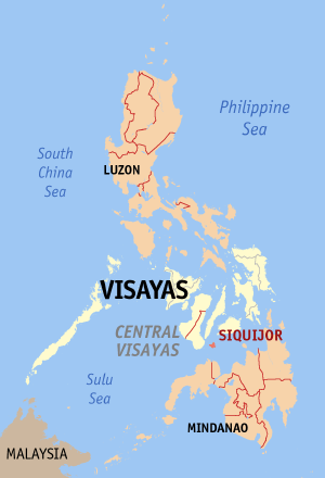 Map of the Philippines showing the location of Siquijor